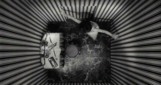 Strait-Jacket - trailer (cropped screenshot)